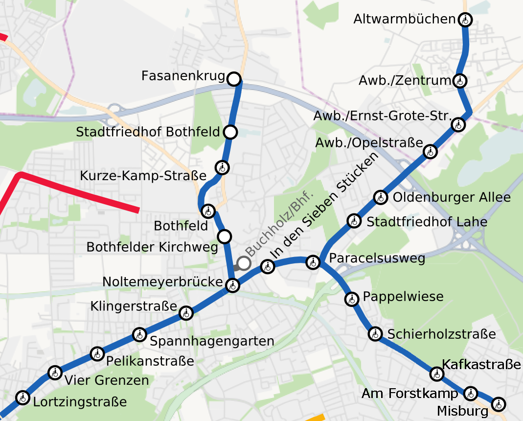 Light rail of Hannover, Germany. A North